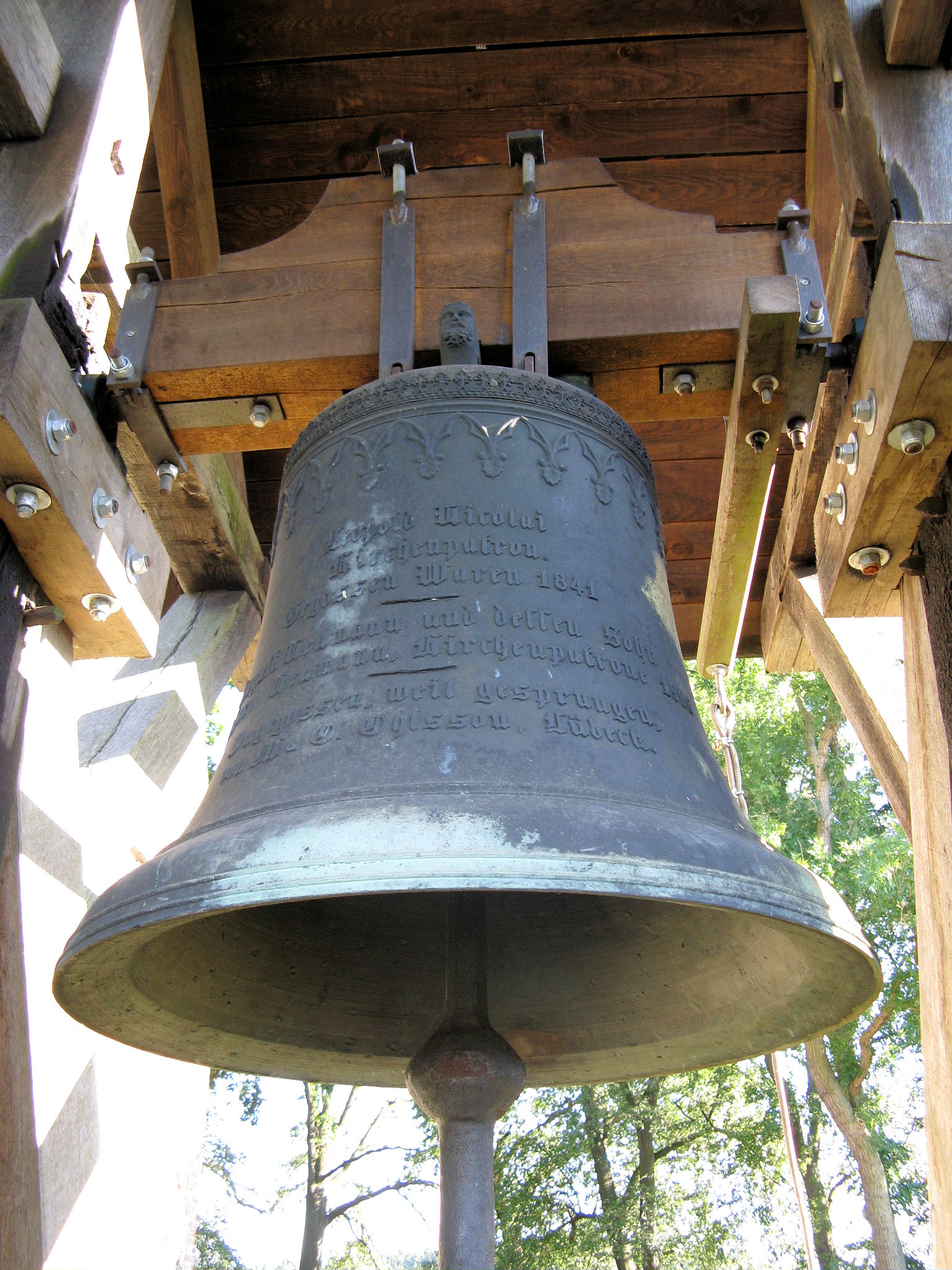 Church bell in Kargow, disctrict Müritz, Mecklenburg-Vorpommern, Germany